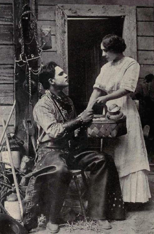 Still from the film How He Redeemed Himself (USA 1911). Still published in David S. Hulfish, Cyclopedia of Motion-Picture Work (1914).